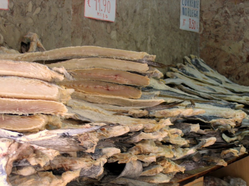 Salt Cod in a Lisbon Market.